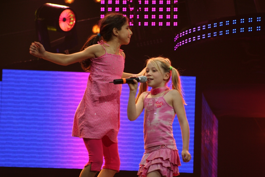 Malin Reitan at the Junior Eurovision Song Contest 2005.